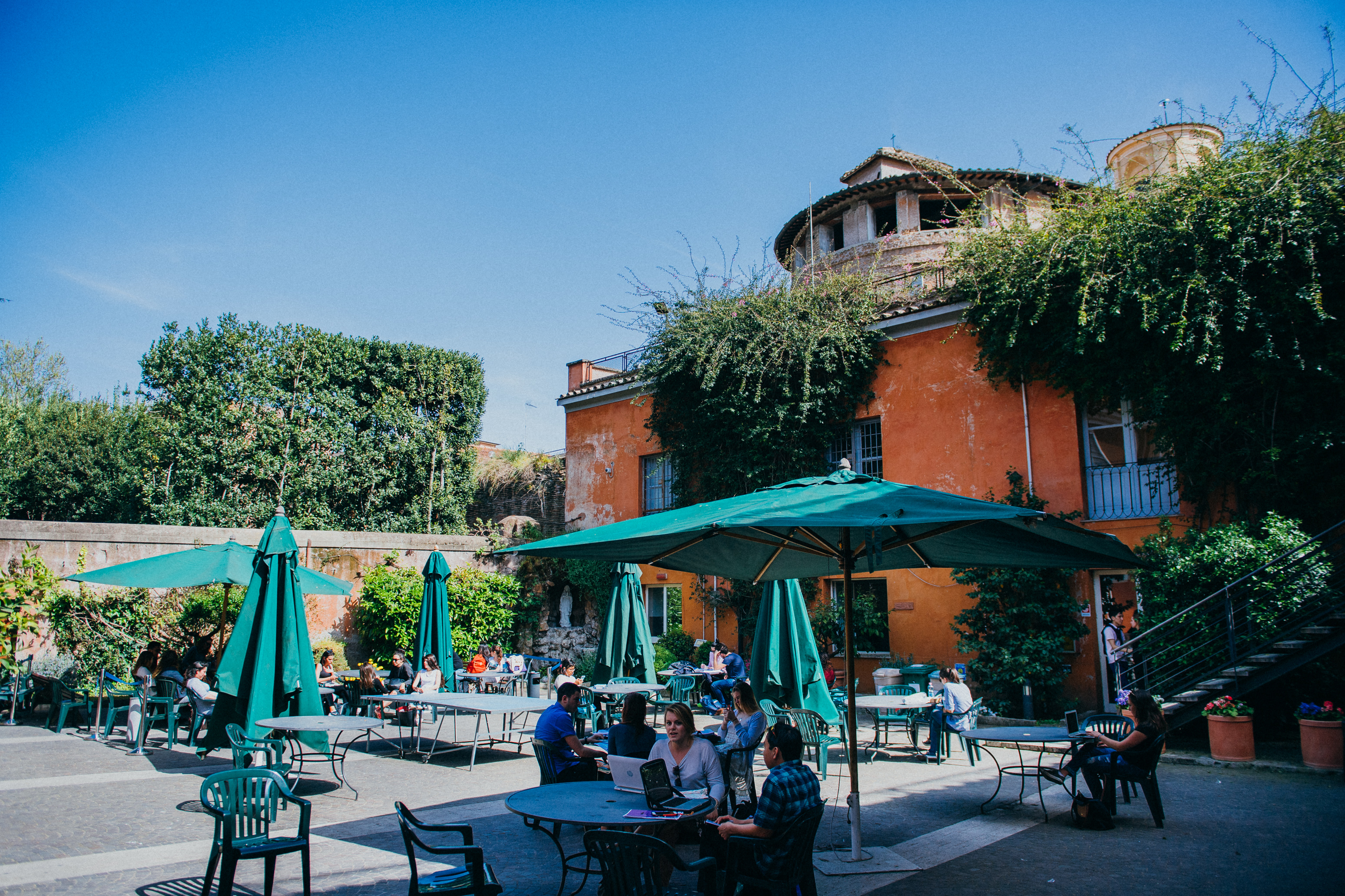 This is a courtyard in John Cabot University's Guarini Campus.